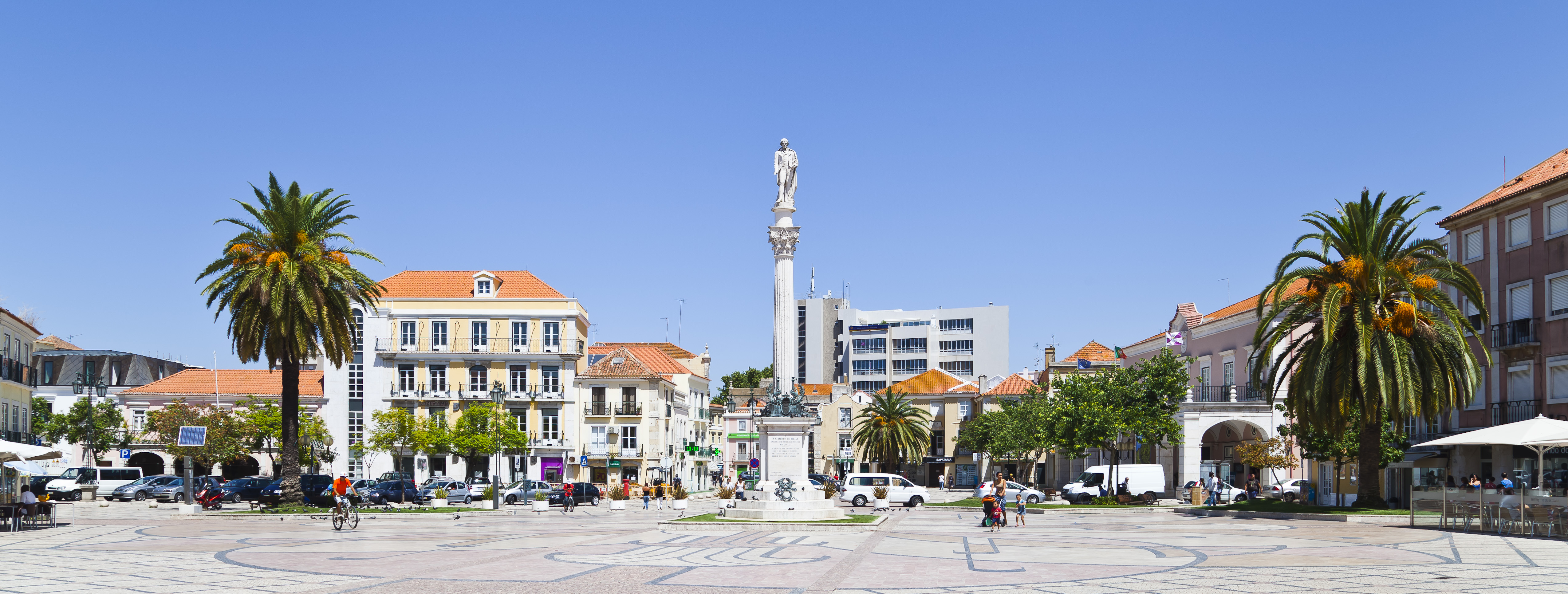 Town hall square, Setúbal, Portugal